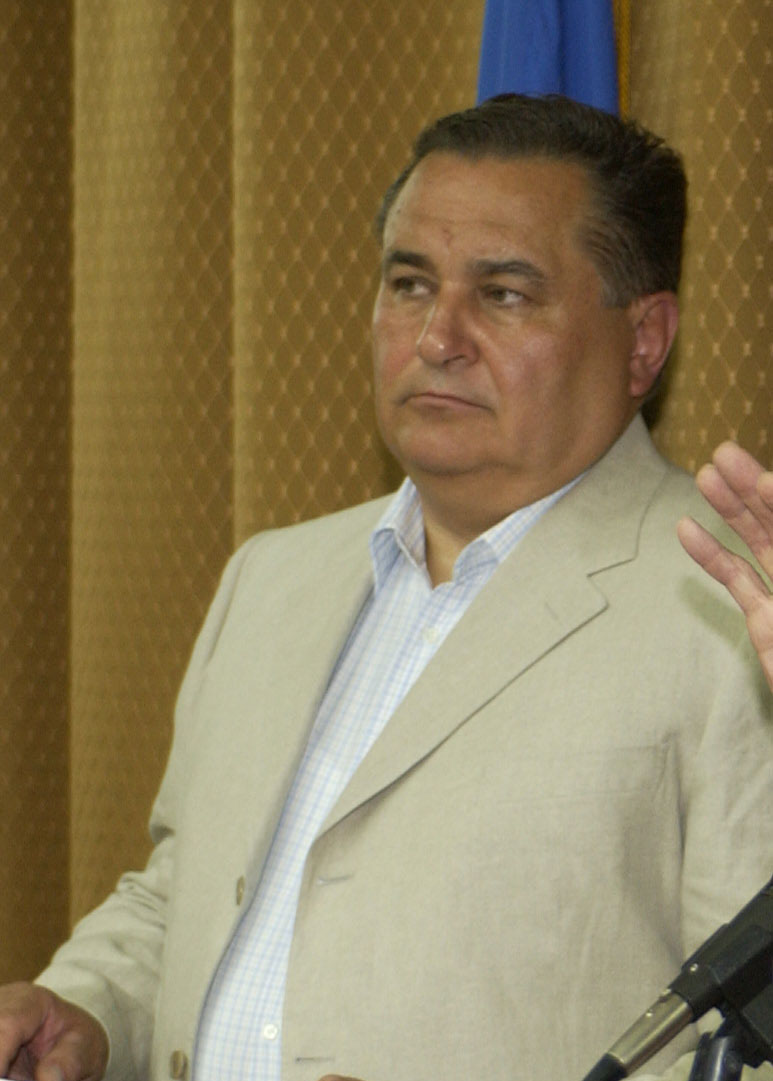 Yevhen Marchuk, Prime Minister of Ukraine in 1995—1996 and Minister of Defense of Ukraine in 2003—2004, during the visit of Donald Rumsfeld to Kyiv